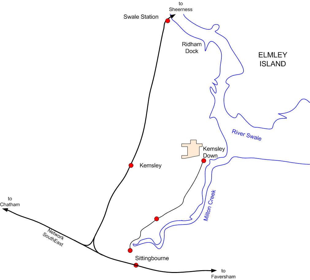 Map of the Sittingbourne & Kemsley Light Railway Author: Dan Crow